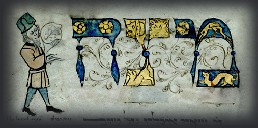 The second Nuremberg Haggada.